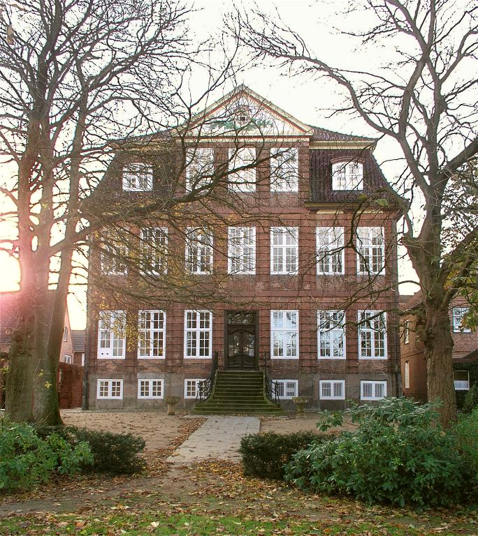 Krempe (Schleswig-Holstein, Germany), Backside of the new townhall , photo 2004